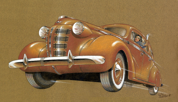 The original drawing has been donated to the Museum of Fine Arts, Boston, but the image posted here was made by me, T. W. Pietsch III. Please see the correspondence below from Jennifer C. Riley, Head of Image Licensing and Digital Archives Museum of Fine Arts, Boston. You may tell them that while the Museum of Fine Arts, Boston owns the artwork; we do not retain the copyright to Theodore Wells Pietsch II’s images. Best, Jennifer Jennifer Riley Head of Image Licensing and Digital Archives Museum of Fine Arts, Boston | 617-369-3777 Dear Mr. Pietsch, Regarding copyright, you retain copyright to any photos you took of the drawings made by your father. The copyright to the artworks and photographs does not revert to the Museum automatically upon donation of the works. The copyright to the photographs that you took stays with you so you have every right to upload those photos to Wikipedia. I am happy to provide you with language necessary for you to pass on to Wikipedia so you can reload the images. Since the Museum does not, in fact, hold the copyright to those photos, we cannot upload them. Best, Jennifer Jennifer Riley Head of Image Licensing and Digital Archives Museum of Fine Arts, Boston | 617-369-3777